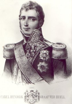 This is a Picture of a painting in the marine museum in den Helder. The Painting shows Ver heull in about 1810-1815. Both Ver heull and the Painter are more than 100 years dead. The painter is unknown.